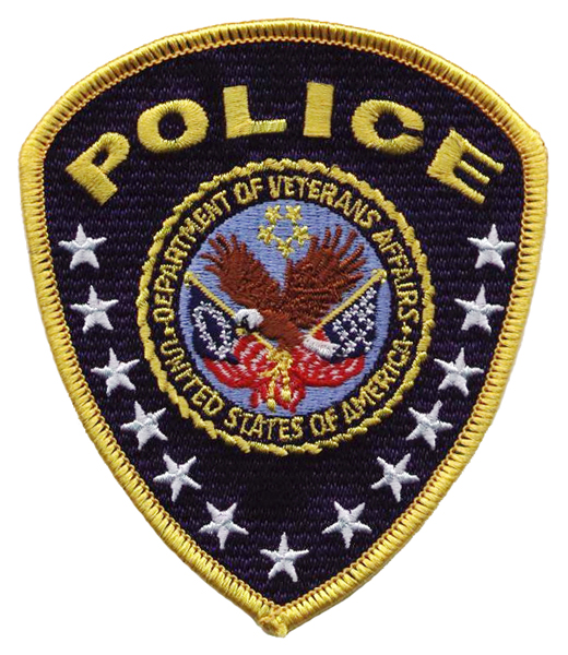 Patch of the United States Department of Veterans Affairs Police